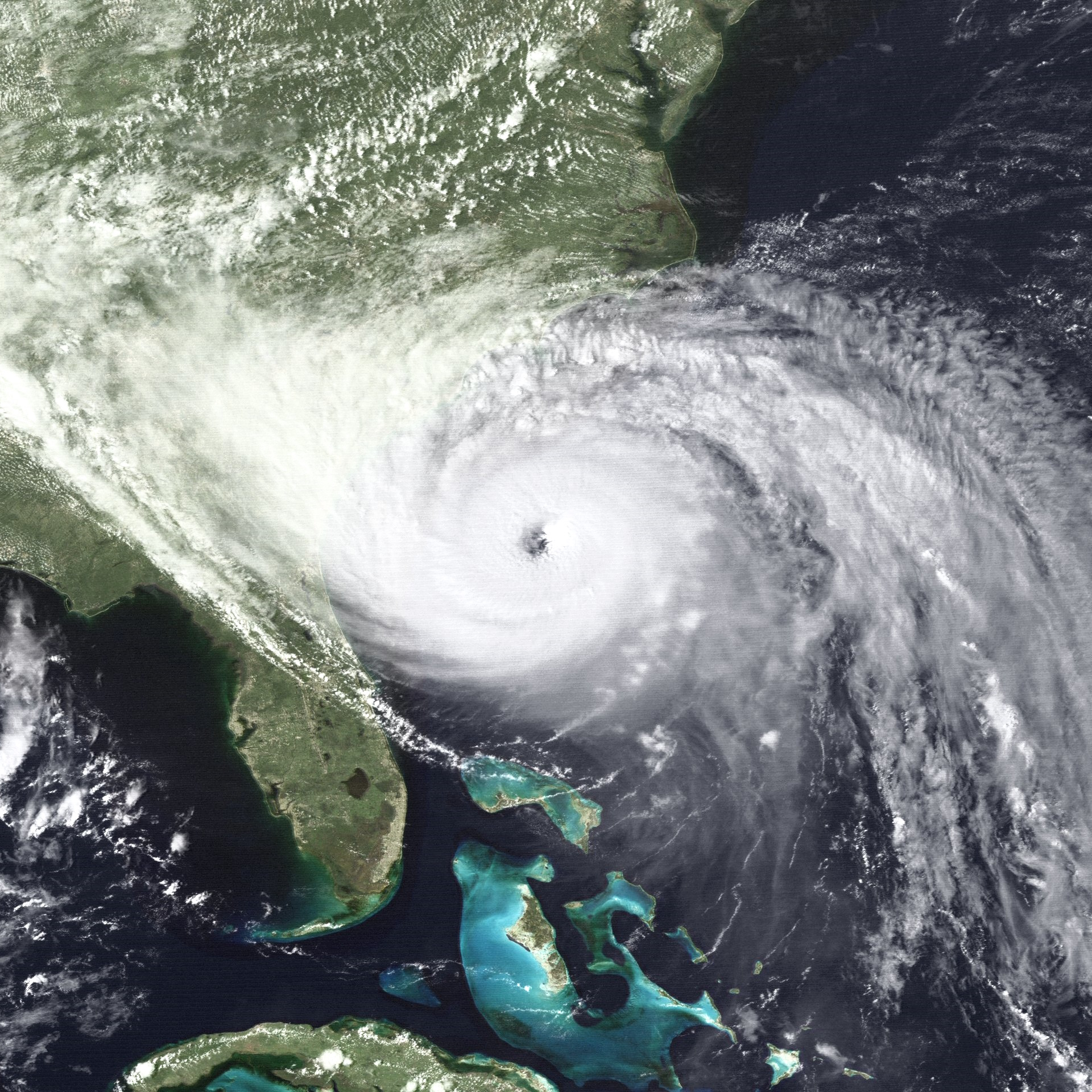 Hurricane Hugo is shown the day before landfall from the GOES-7 satellite, September 21, 1989 at 4:00 pm EST. Hugo ranks number 8 on a list of costliest mainland-falling hurricanes, number 11 most intense, was the only category 4 hurricane to make mainland landfall in the '80's and resulted in causing 5 lives to be lost.